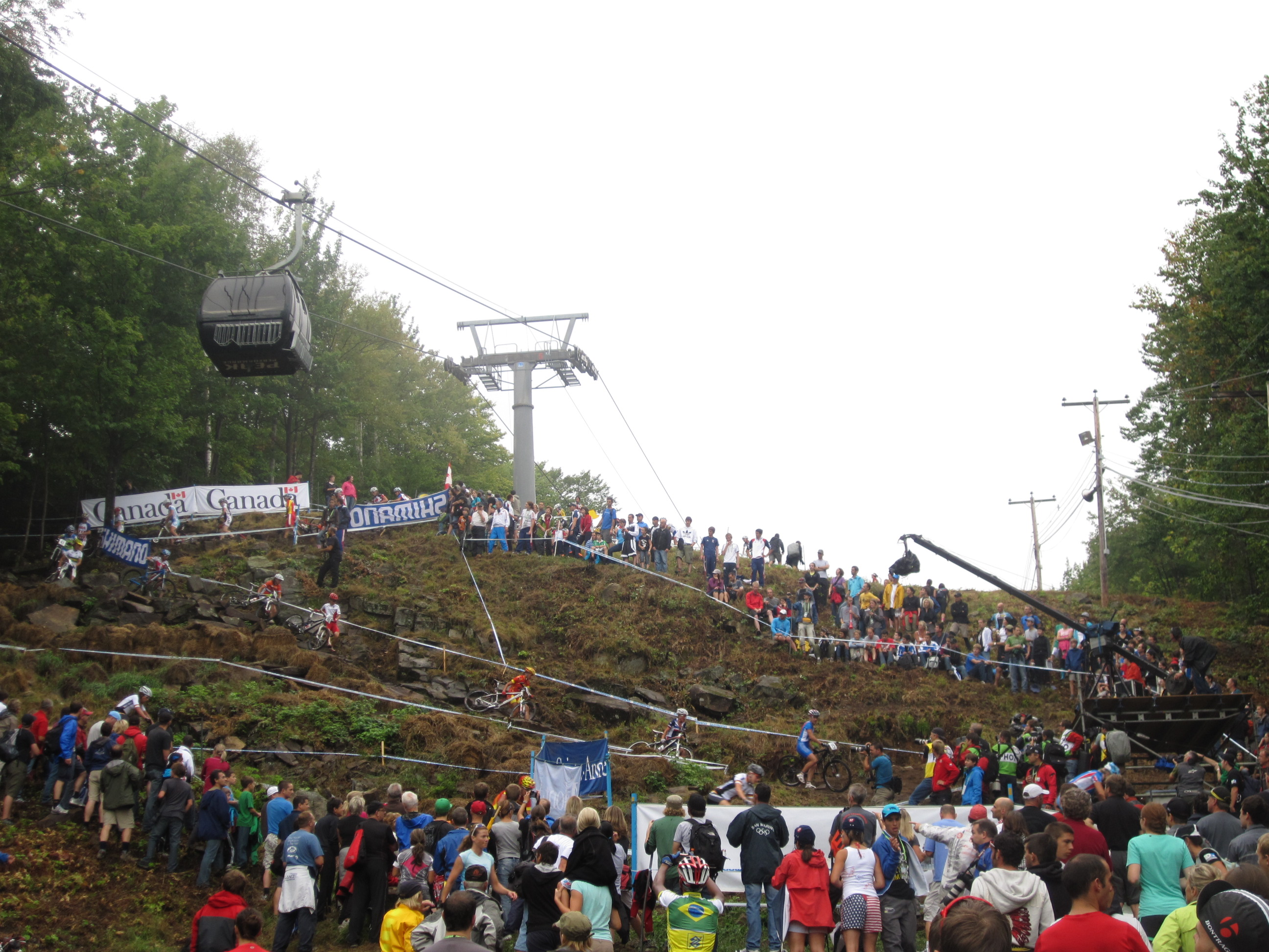 Cross-country course at 2010 UCI Mountain Bike and Trials World Championships in Mont-Sainte-Anne, QC, Canada